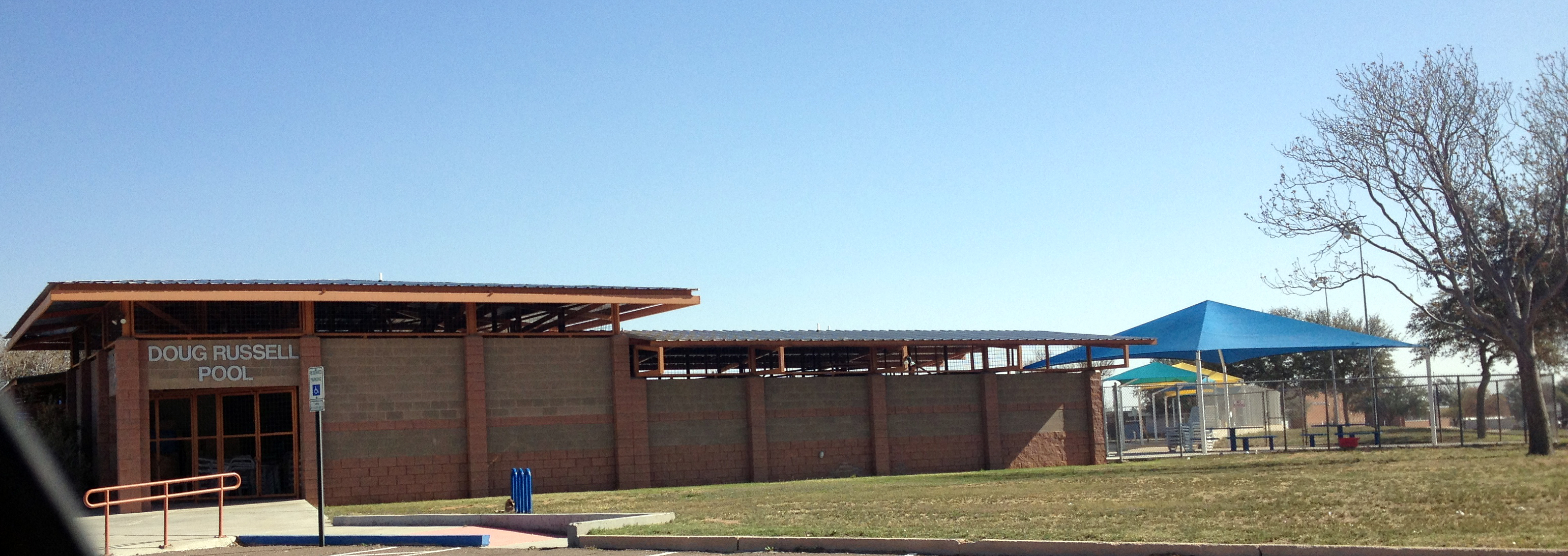 Doug Russell Pool in Midland, Texas, USA. Named after the Olympian swimmer Doug Russell, Midland native.